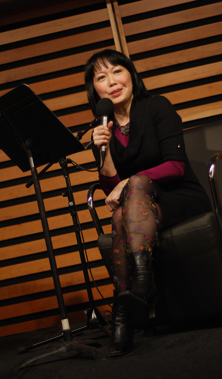 Mary Ito acting as host at Toronto Celebrates Canada Reads 35